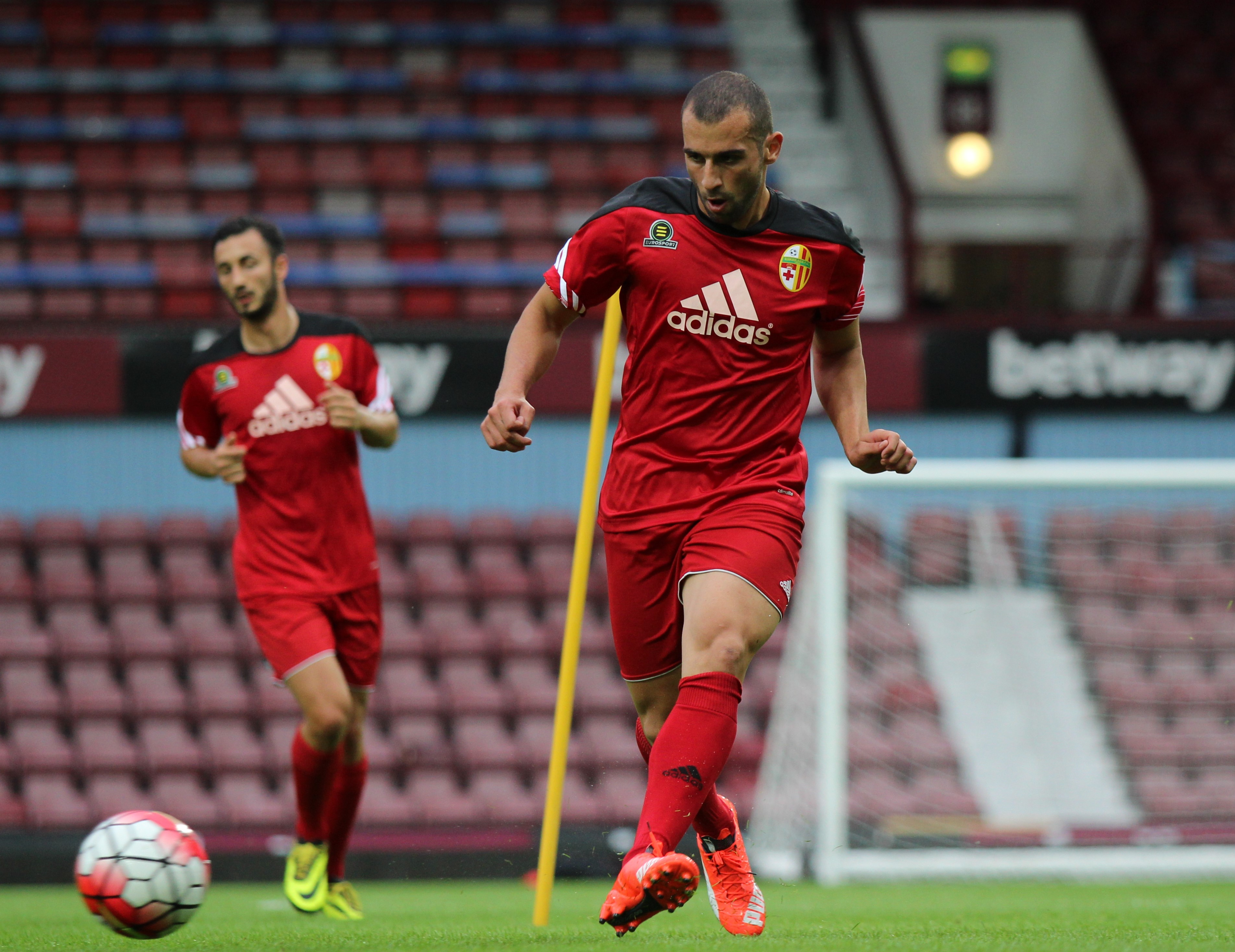 Joseph Zerafa of Birkirkara during the Open Training Session before the Europa League qualifier against West Ham.